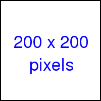 A 200x200 pixel square. Intended for display at this resolution. Created by Wapcaplet in the GIMP. using a ruler, measure the size of this square on your monitor. Divide 200 by your measurement in inches; the result is your monitor's resolution in pixels per inch.